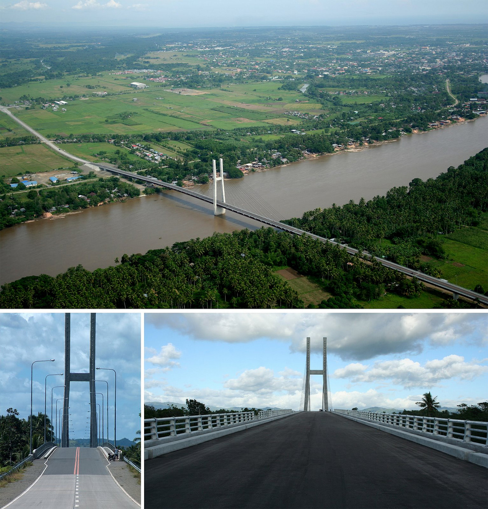 Macapagal Bridge, Butuan City. Province of Agusan del Norte, Mindanao, Philippines